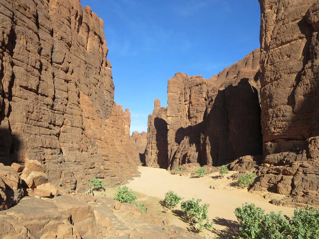 Weathering of the sandstone Ennedi Mountains of northeastern Chad, Central Africa, has created many canyons.